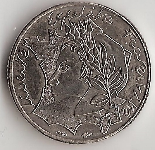 10 french francs coin 1986 - Republic type